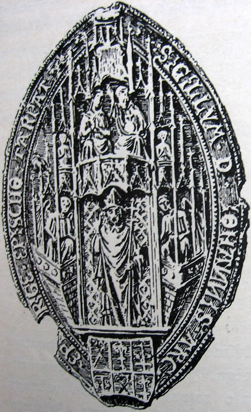 Seal of Johann Blankenfeld, Archbishop of Riga and Bishop of Tartu and Tallinn.